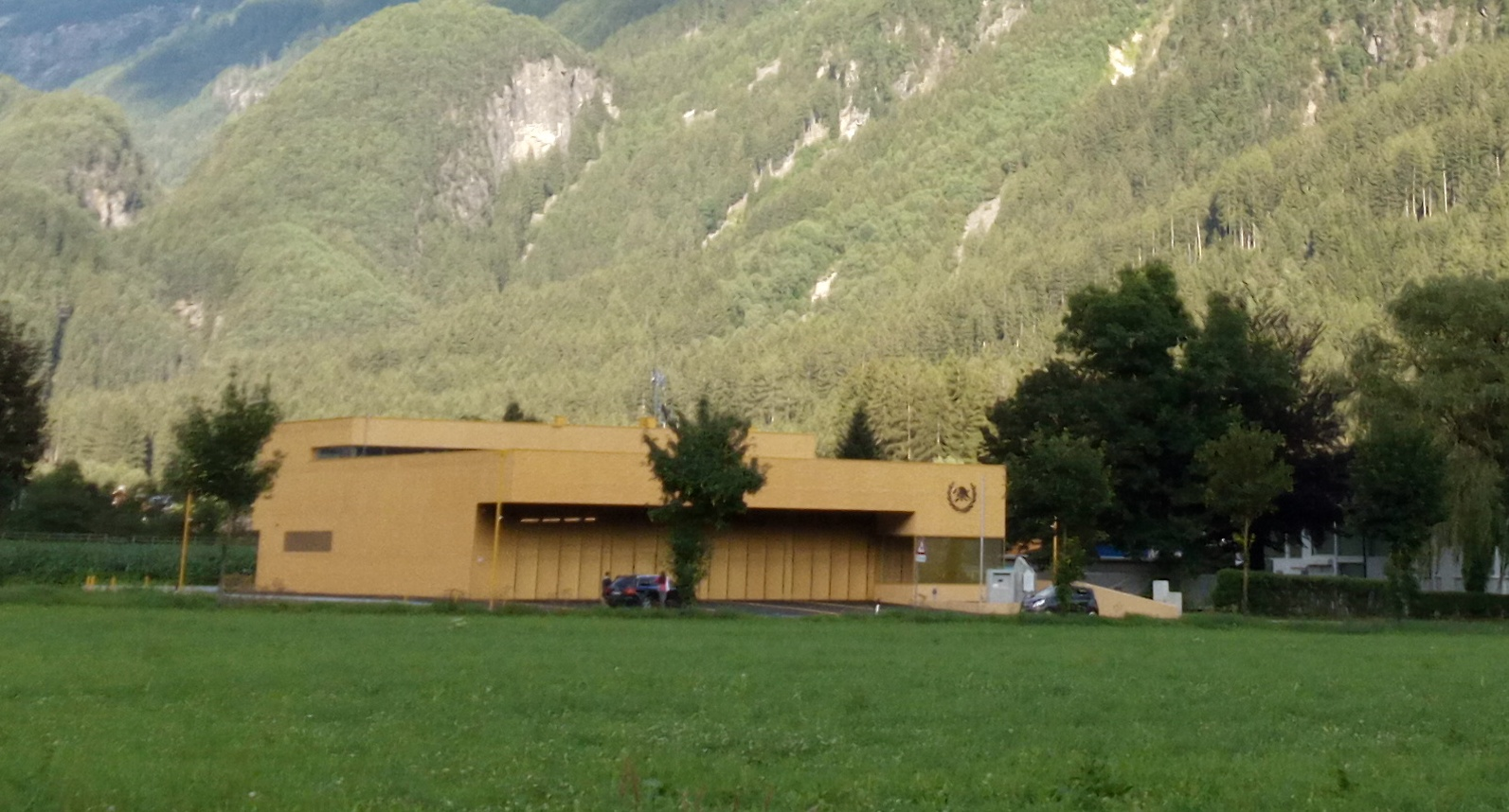 The Fire Station of Sand in Taufers, South Tyrol (2016)